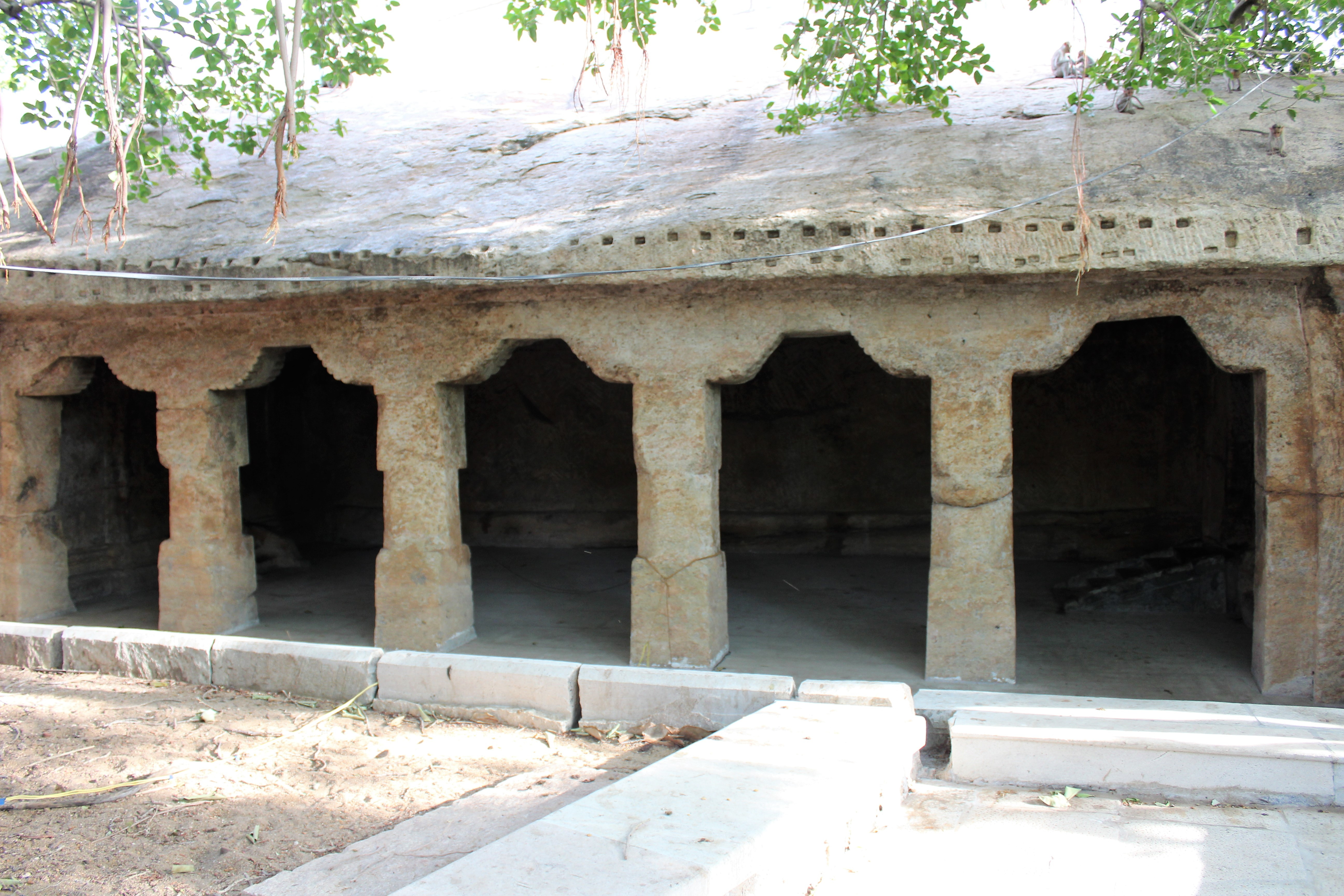 Pundarikakshan Perumal temple, Thiruvellarai